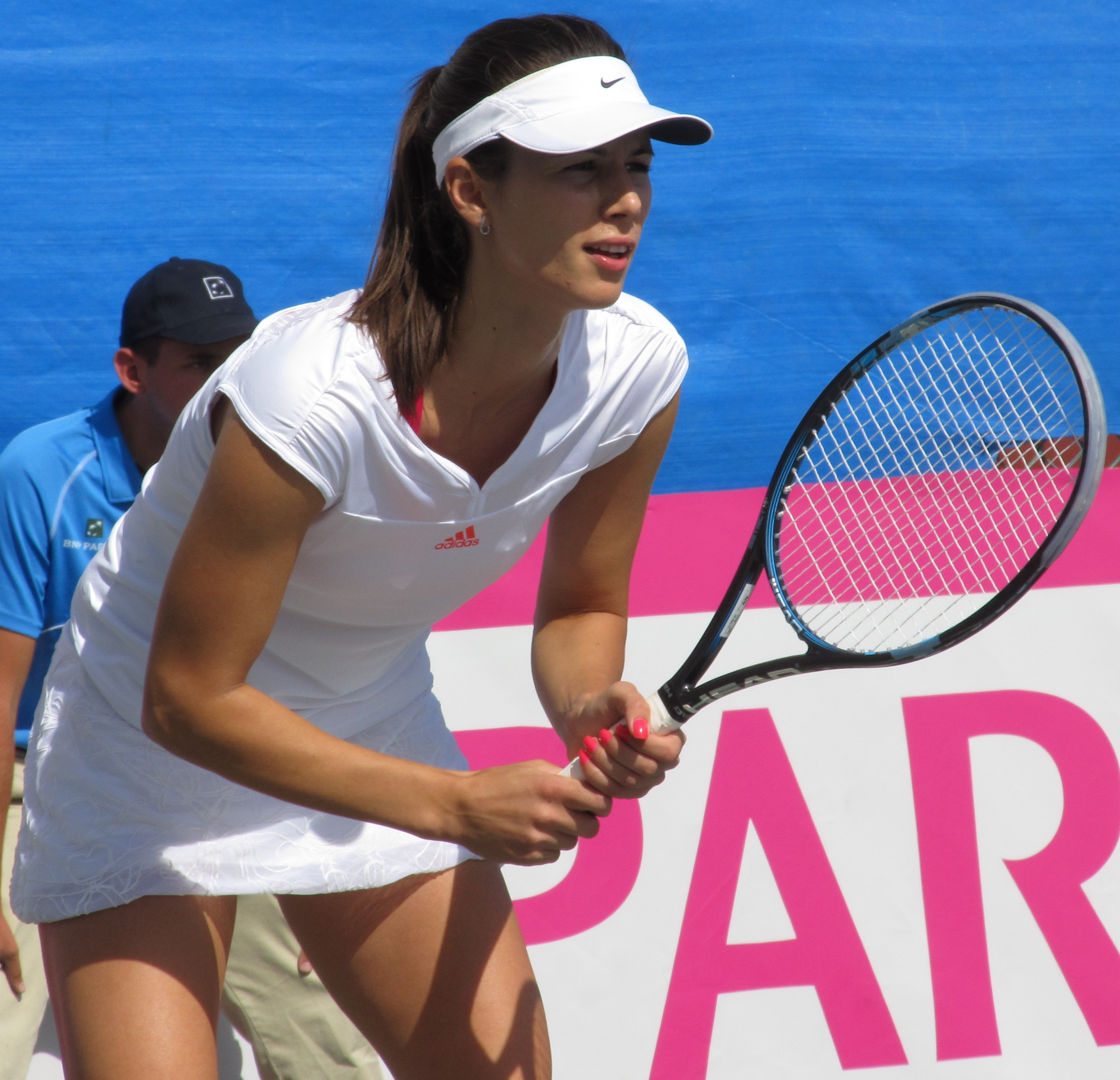 The tennis player Tsvetana Pironkova of Bulgaria during her match against Tamira Paszek of Austria in the 3rd day of Fed Cup Group I 2012 Europe/ Africa in Eilat, Israel